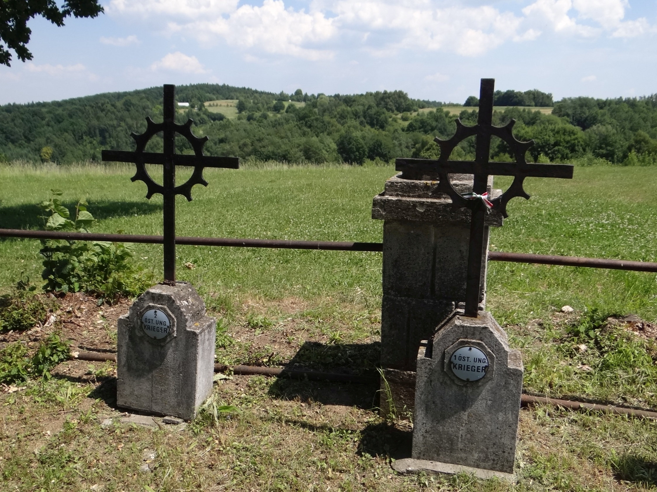 World War I Cemetery nr 163 in Tuchów